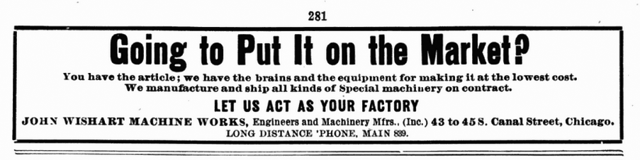 An advertisement for contract manufacturing services, in Popular Mechanics, 1905, volume 7, number 2, page 281.